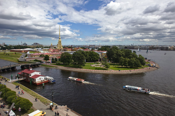 Saint-Petersburg, Russia. Viev of Zayachy island. Kronverkskiy strait (proliv). Peter and Paul Fortress. Author: Anton Vaganov.